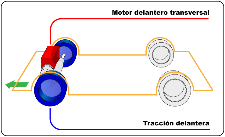 Vehicle engine and drive wheel placement diagrams